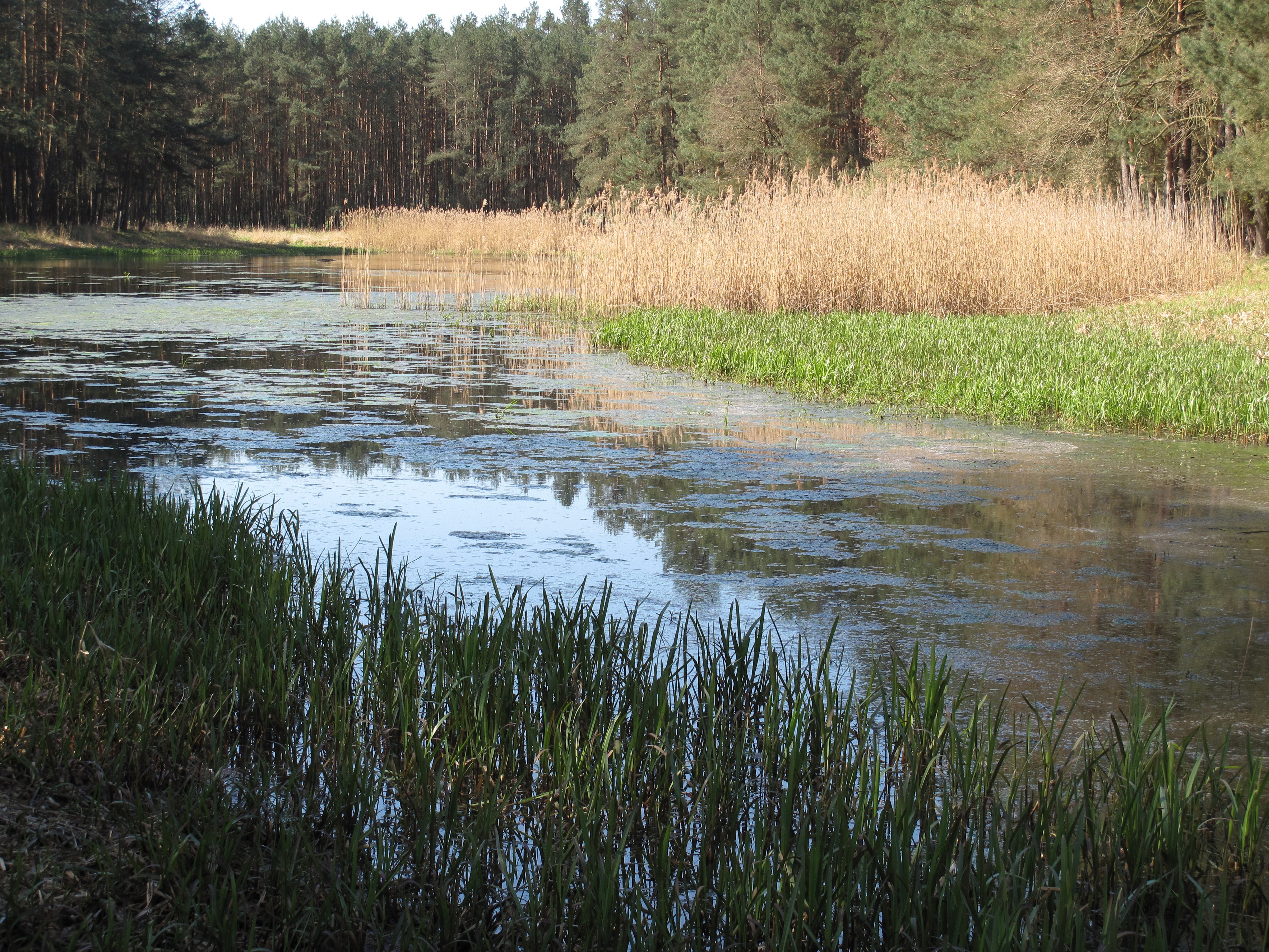 Major lake of the two lakes in the Reichardtsluch. The Reichardtsluch (other spellings: Reichardsluch, Reichards-Luch) is a Luch in Limsdorf, a part (german: Ortsteil) of the town Storkow in the District Oder-Spree, Brandenburg, Germany. It is situated in the Dahme-Heideseen Nature Park. The Luch is a part of the Natura 2000-area Schwenower Forst Ergänzung (Schwenower Forst supplement), which belongs to the Natura 2000-area und protected area Naturschutzgebiet Schwenower Forst. It is protected for its amphibian conservation. The Reichardtsluch is flown by the Schwenowseegraben.